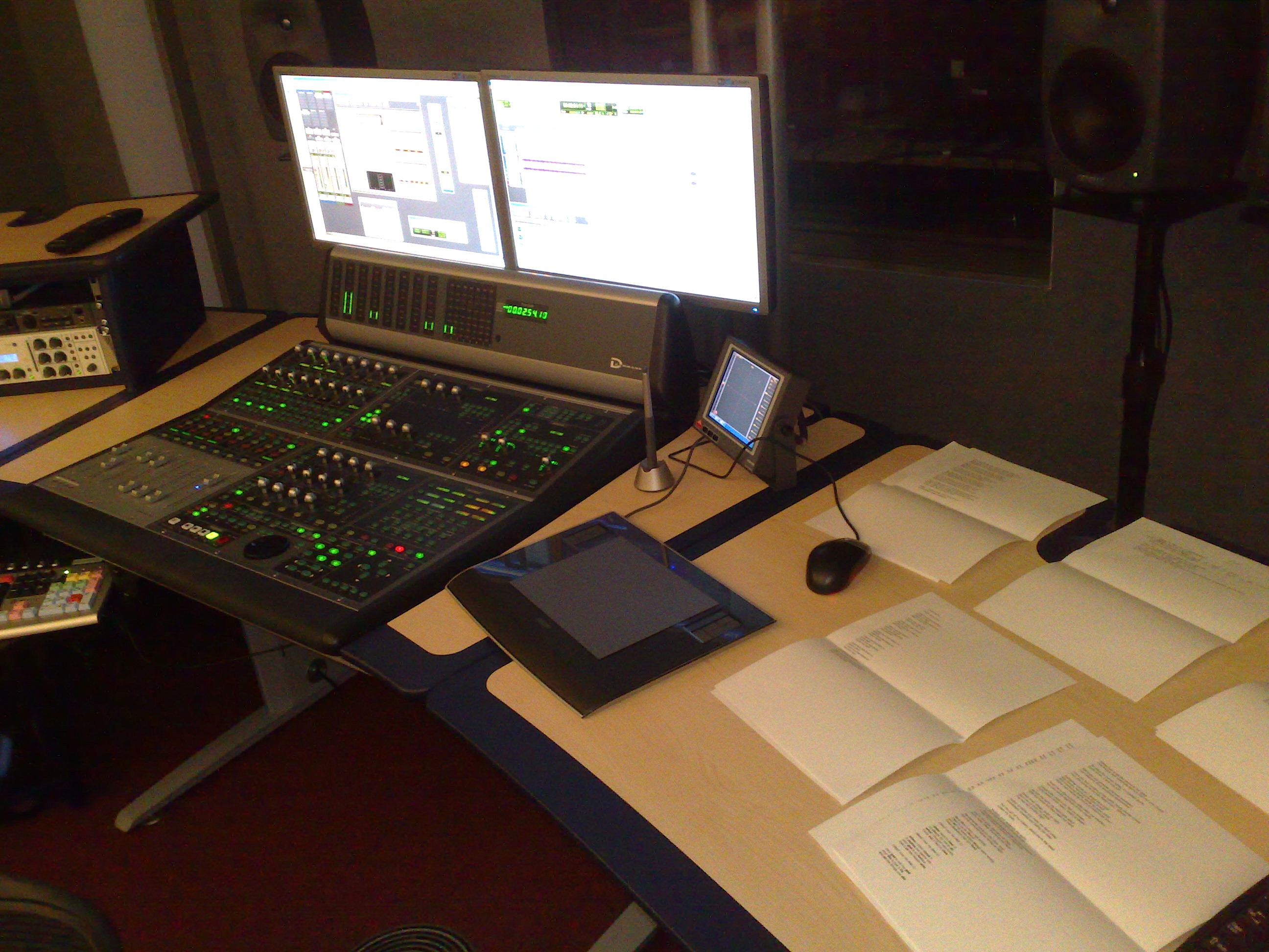 Pro Tools, Digidesign ICON D-Command and lots of printed out lyrics